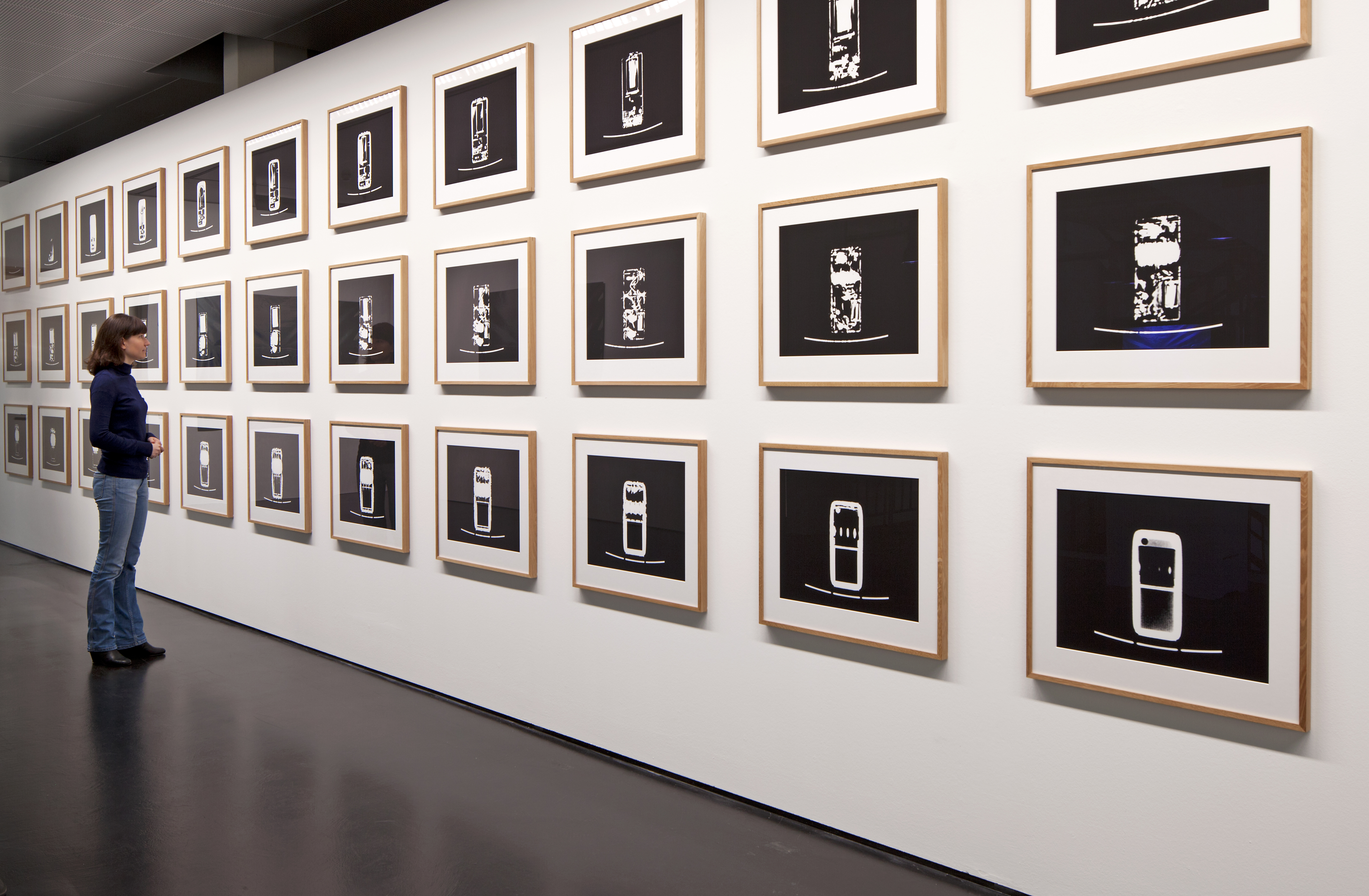 Mischa Kuball: Platons Mirror 2011 Installationshot ZKM Karlsruhe © Onuk